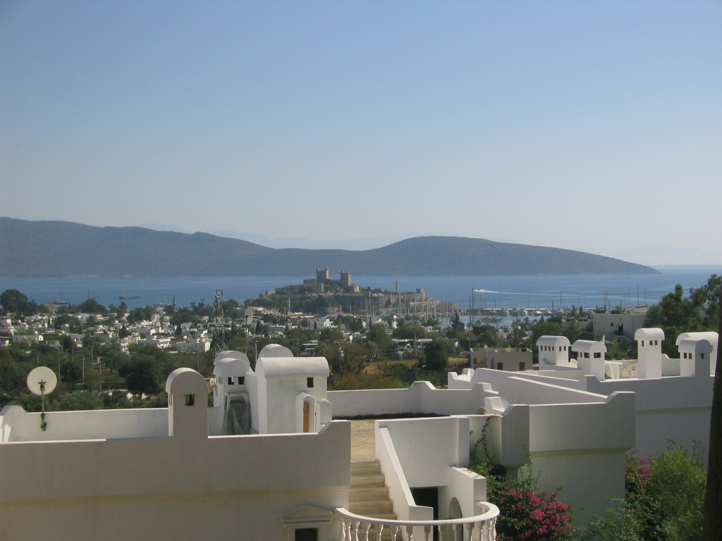 This photo is taken by me, wikipedia user mu5ti, and released to public domain. Further details can be seen at photo's page at flickr